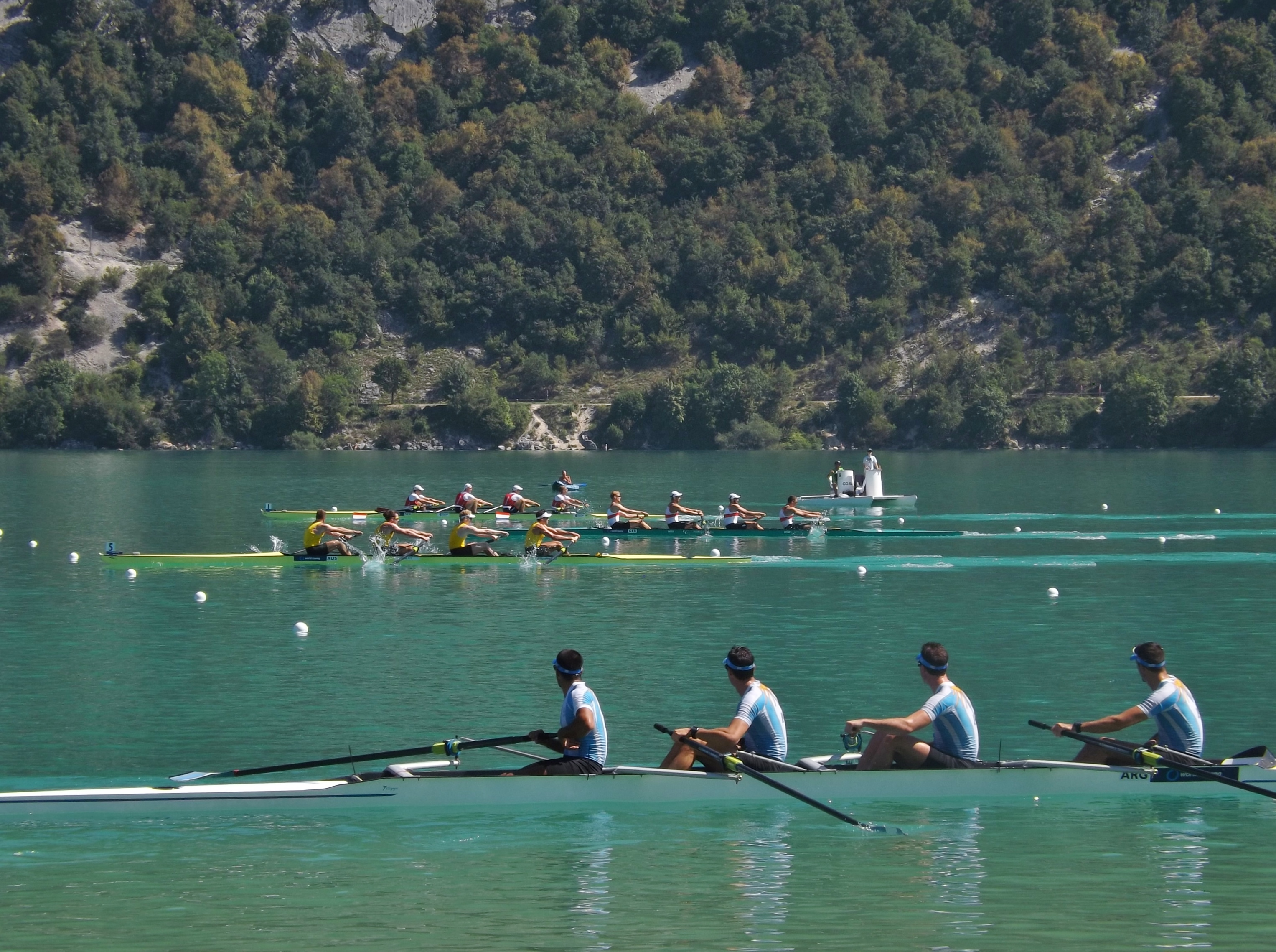 Sight of several men teams, during the first day of the 2015 World Rowing Championships, at the lac d'Aiguebelette, in Savoie, France.